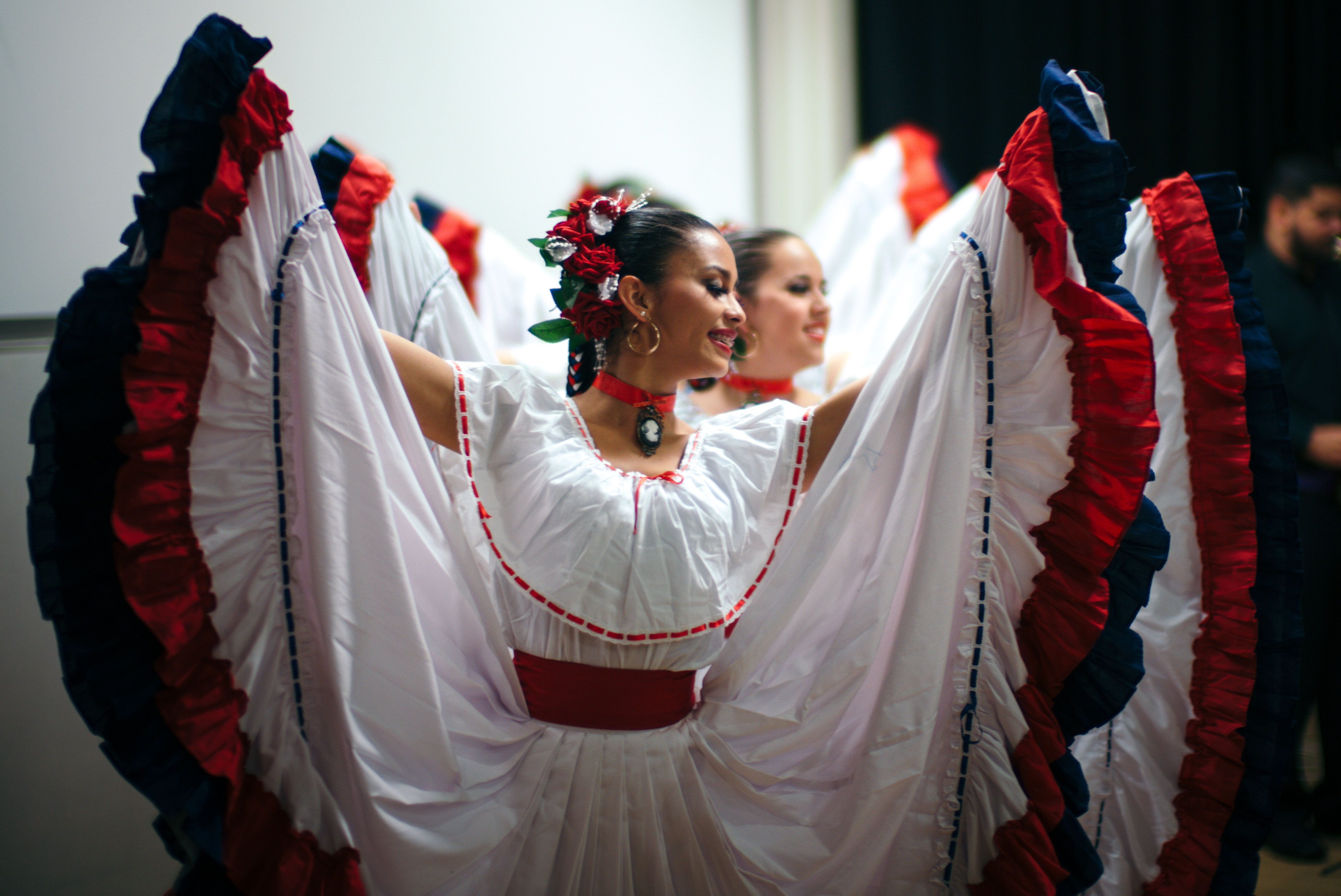 From performance of Folk Group Mi LInda Costa Rica, November 2016 This photo has been taken in the country: Costa Rica